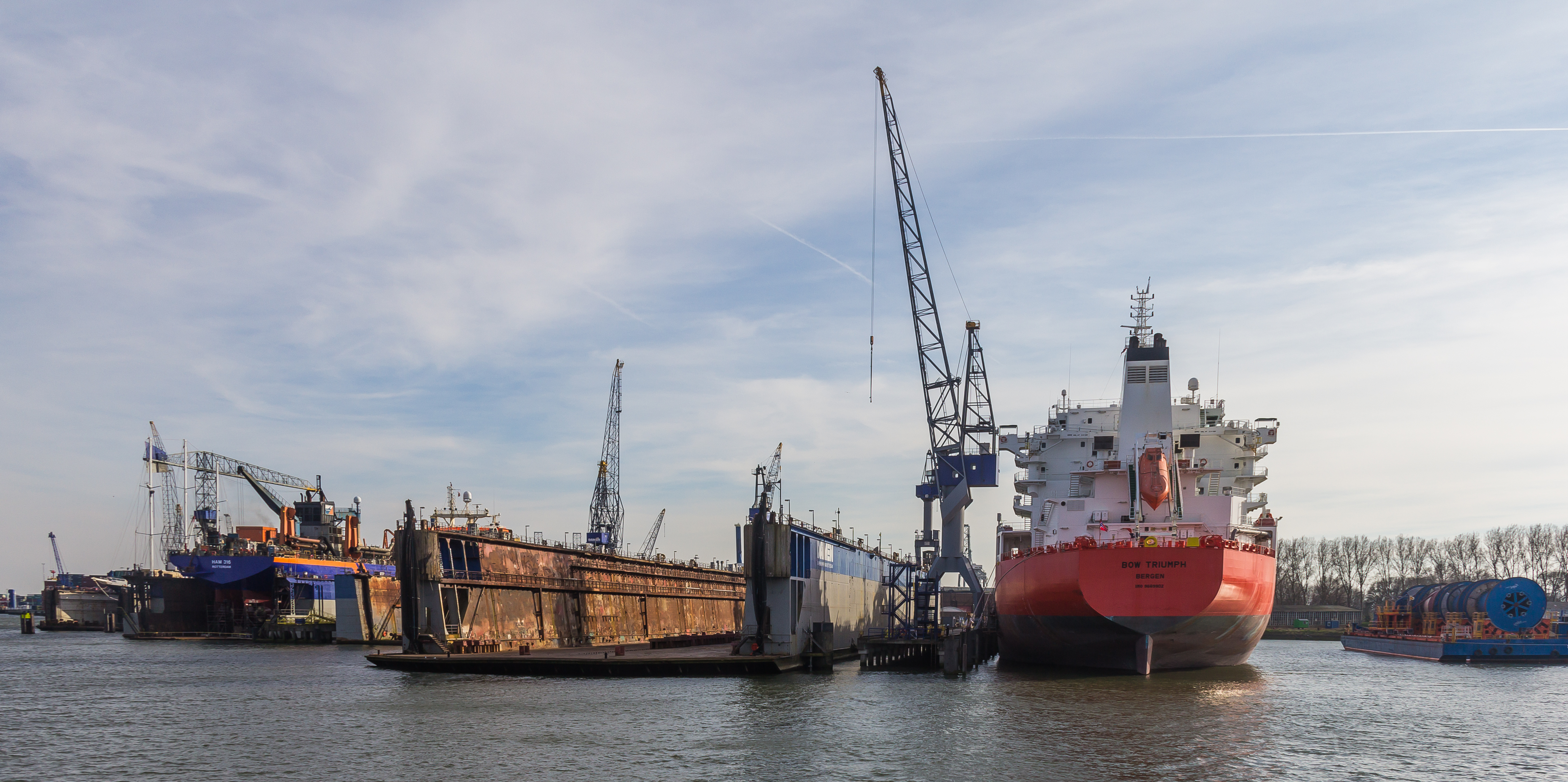 Dry docks Damen Shipyards Rotterdam. On the right: Odfjell Tanker Bow Triumph (IMO 9669902)